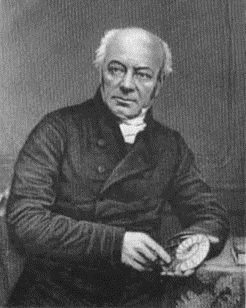 Prominent British geologist and palaeontologist William Buckland (1784-1856)